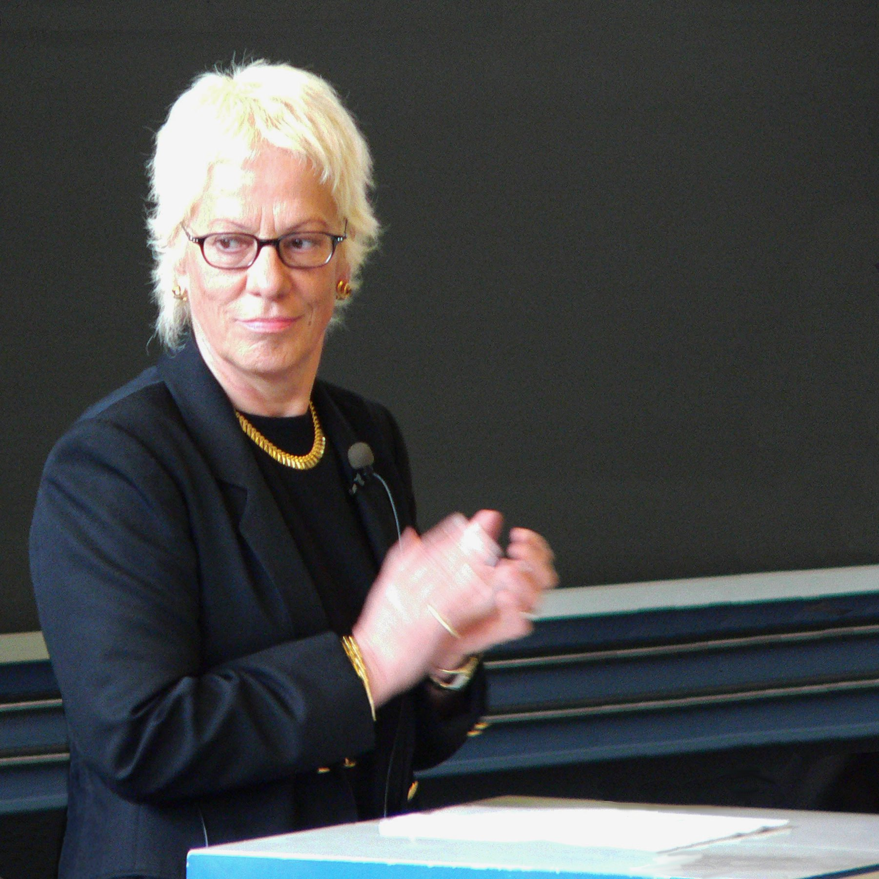 Carla del Ponte, procuror for the International Criminal Tribunal for the Former Yugoslavia, giving a talk at the University of Lausanne (18th of April 2005).